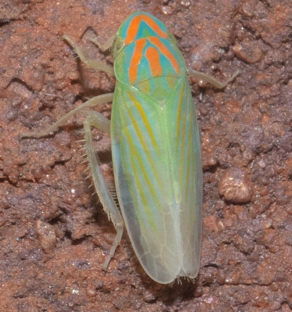 Spangbergiella vulnerata, Family: Leafhoppers, Size: around 5 mm, ID Confidence: 90